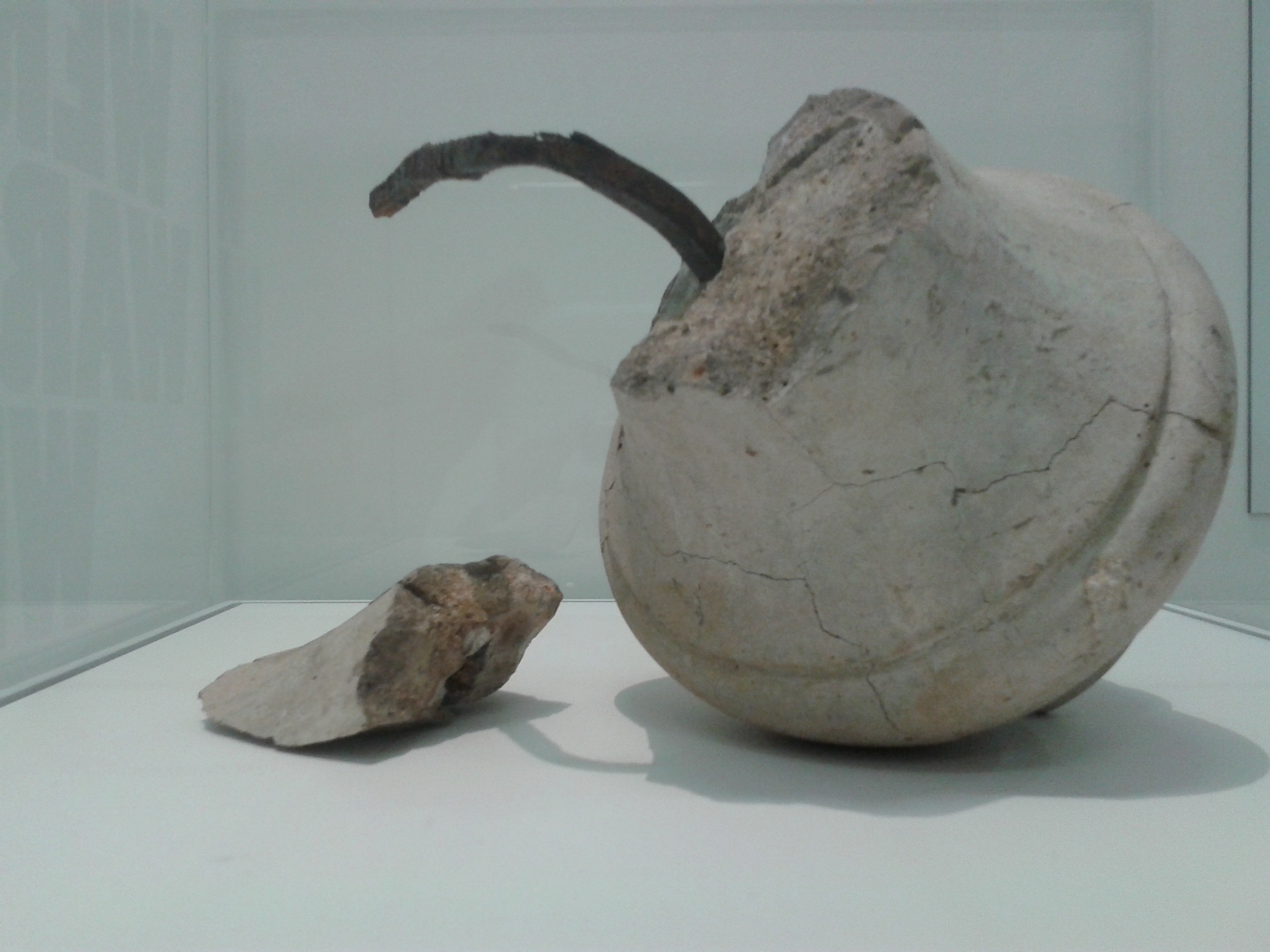 Place of the Old Synagogue Freiburg - Archaeological find 2016